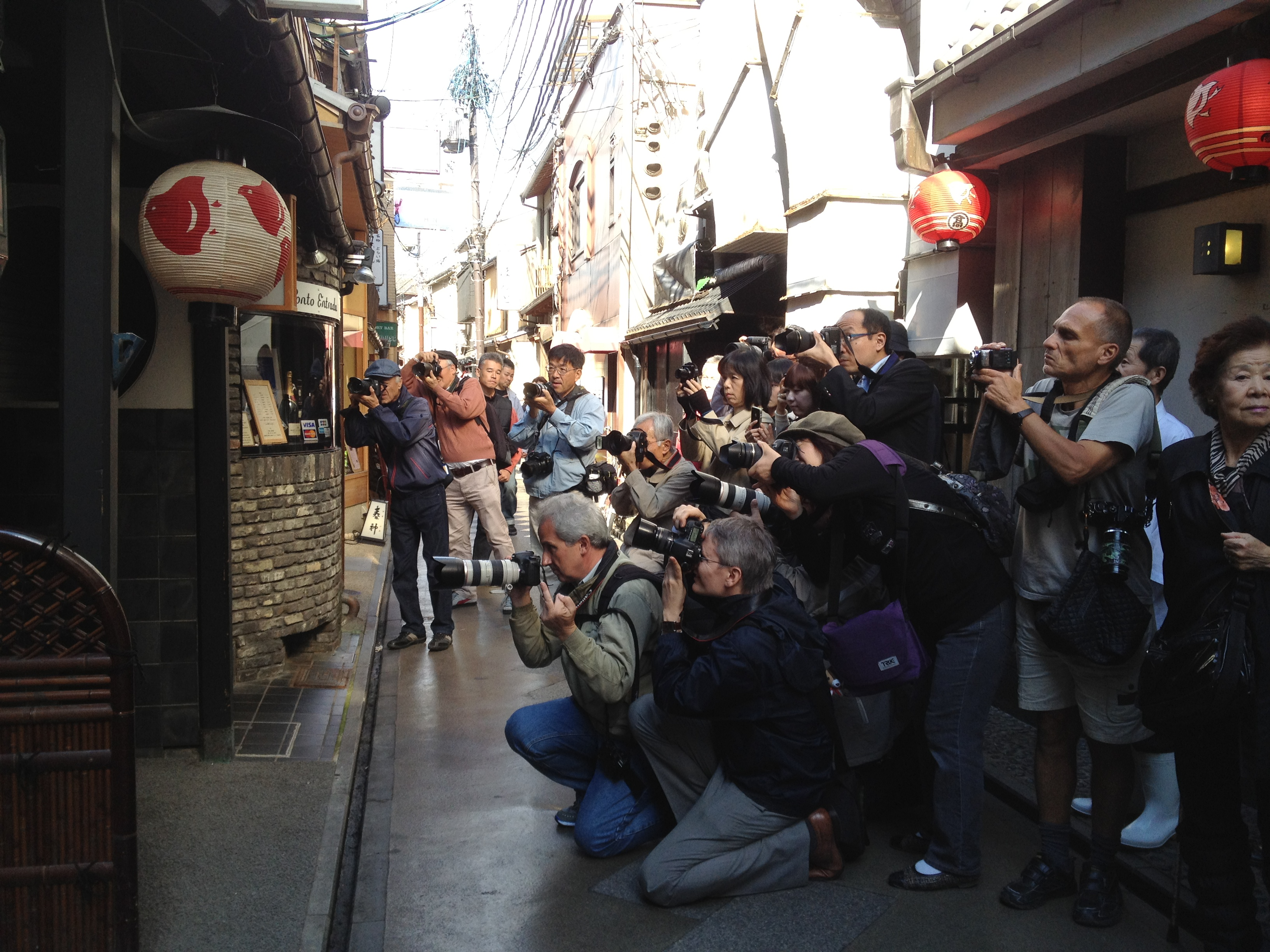 A crowd of photographers waiting for a new maiko to exit her okiya at the day of her misedashi. Katsuya Building (かつやビル) in Pontocho, Kyoto.